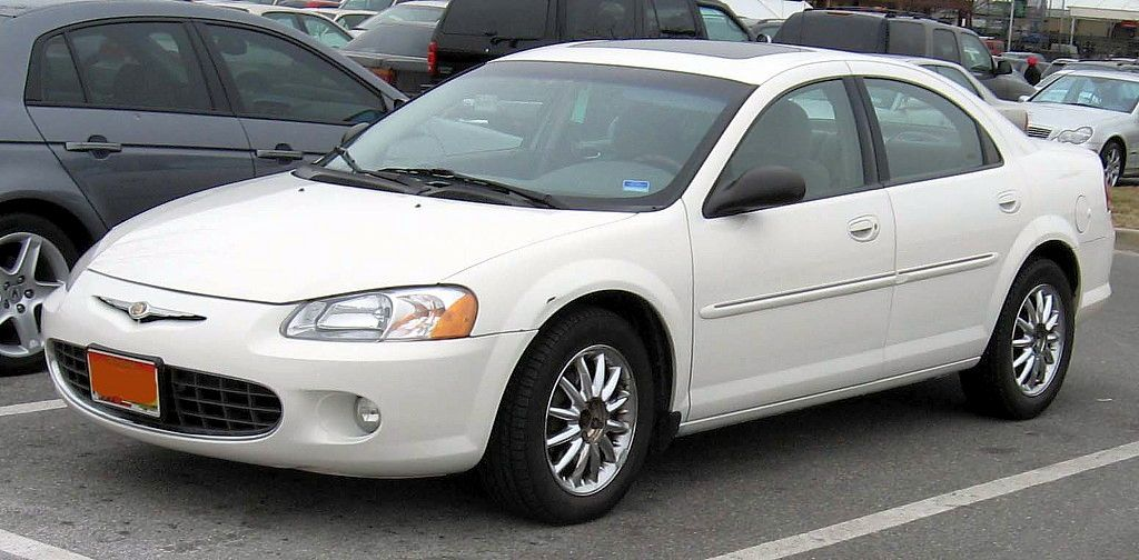 2001-2003 Chrysler Sebring photographed in USA.